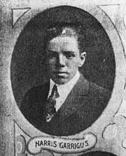 Photo from Imperial (California) High School yearbook, more than 70 years old (1919, to be exact).